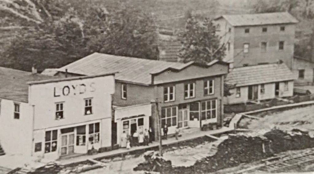 A view of Exchange, WV in the early 1900's. The railroad in the foreground is the Coal & Coke Railway. The street in front of the two buildings is Arnold Lane.